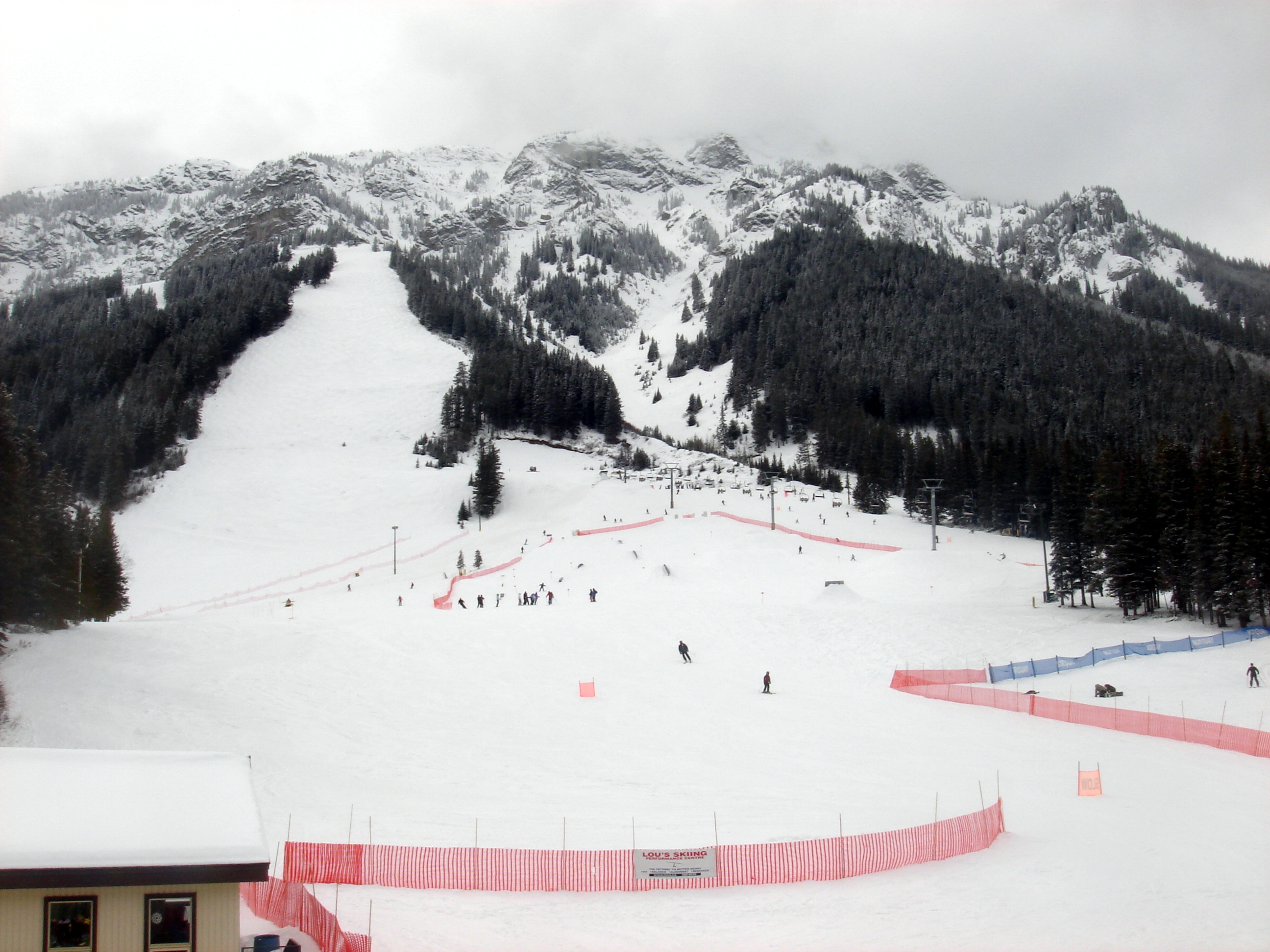 Mount Norquay ski slope, in Banff National Park, Alberta, Canada